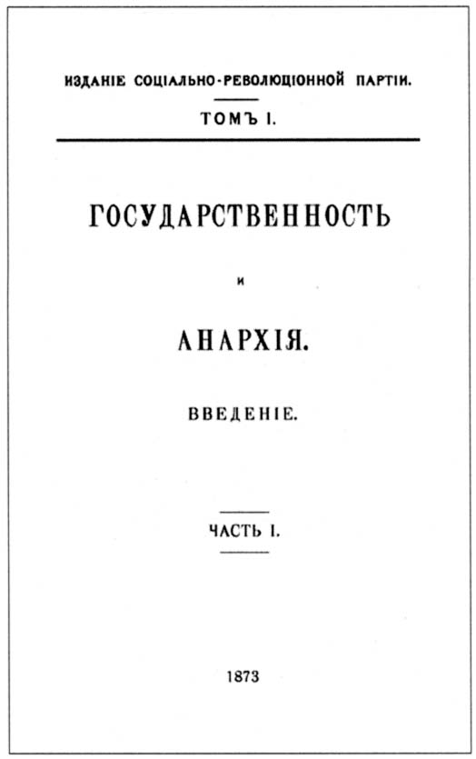 Statism and Anarchy, first print 1873